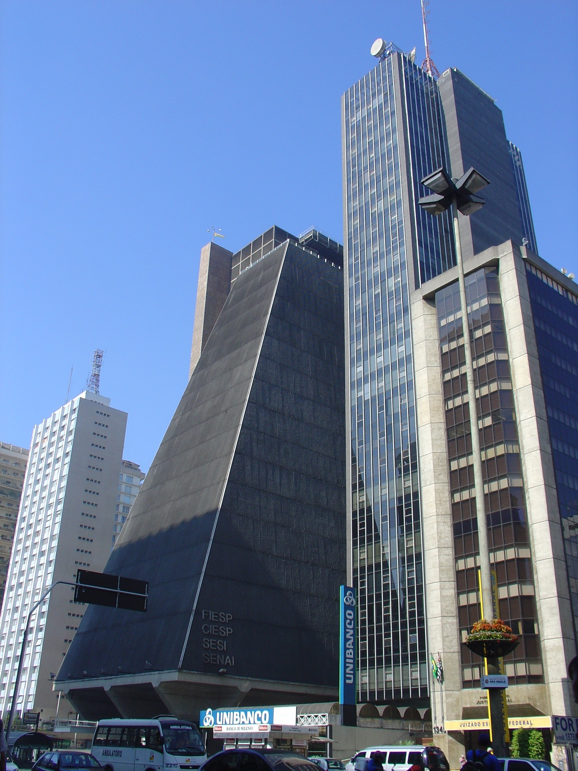 avenue Paulista/FIESP